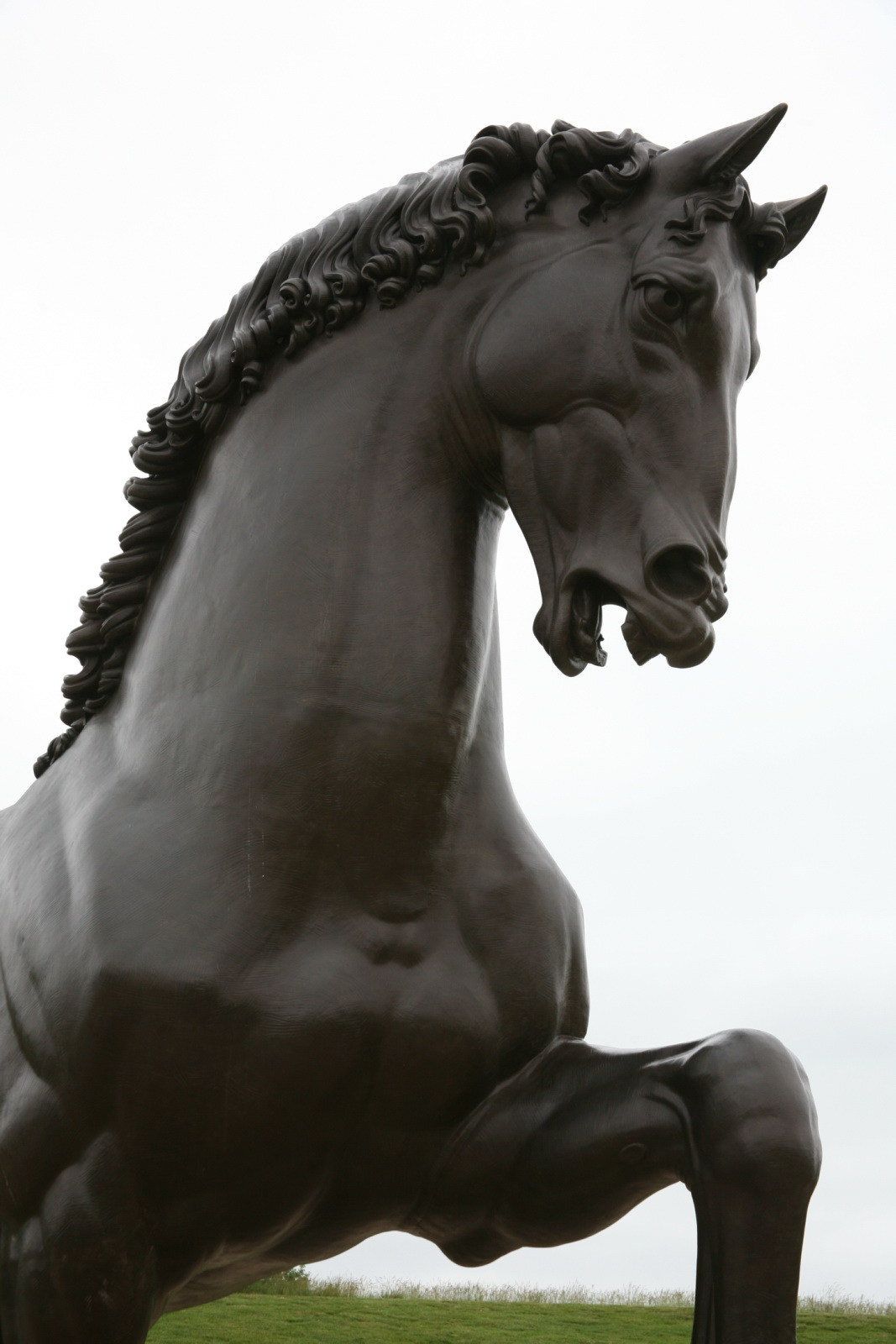 The American Horse, 1998 Bronze By Nina Akamu. Her massive bronze equine sculpture that pays homage to Renaissance master Leonardo da Vinci.